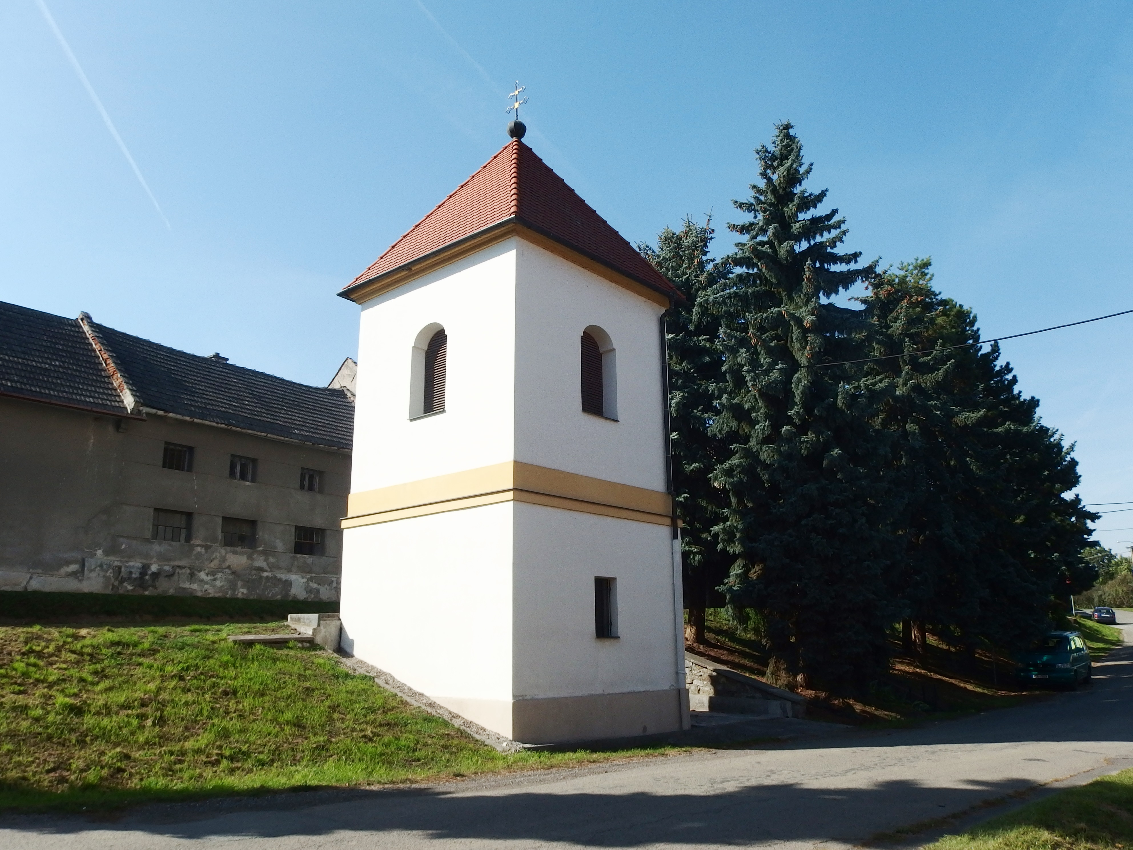 Dub nad Moravou, Olomouc District, Czech Republic, part Bolelouc.